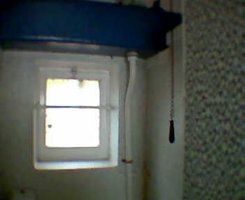 The original Trough Cistern from the 1930s in a set of toilets along Bournemouth seafront. The chain hangs over the front and is easy to flush. Very few, if any of these remain in the UK. It survived until 2005 before the toilets where renovated.